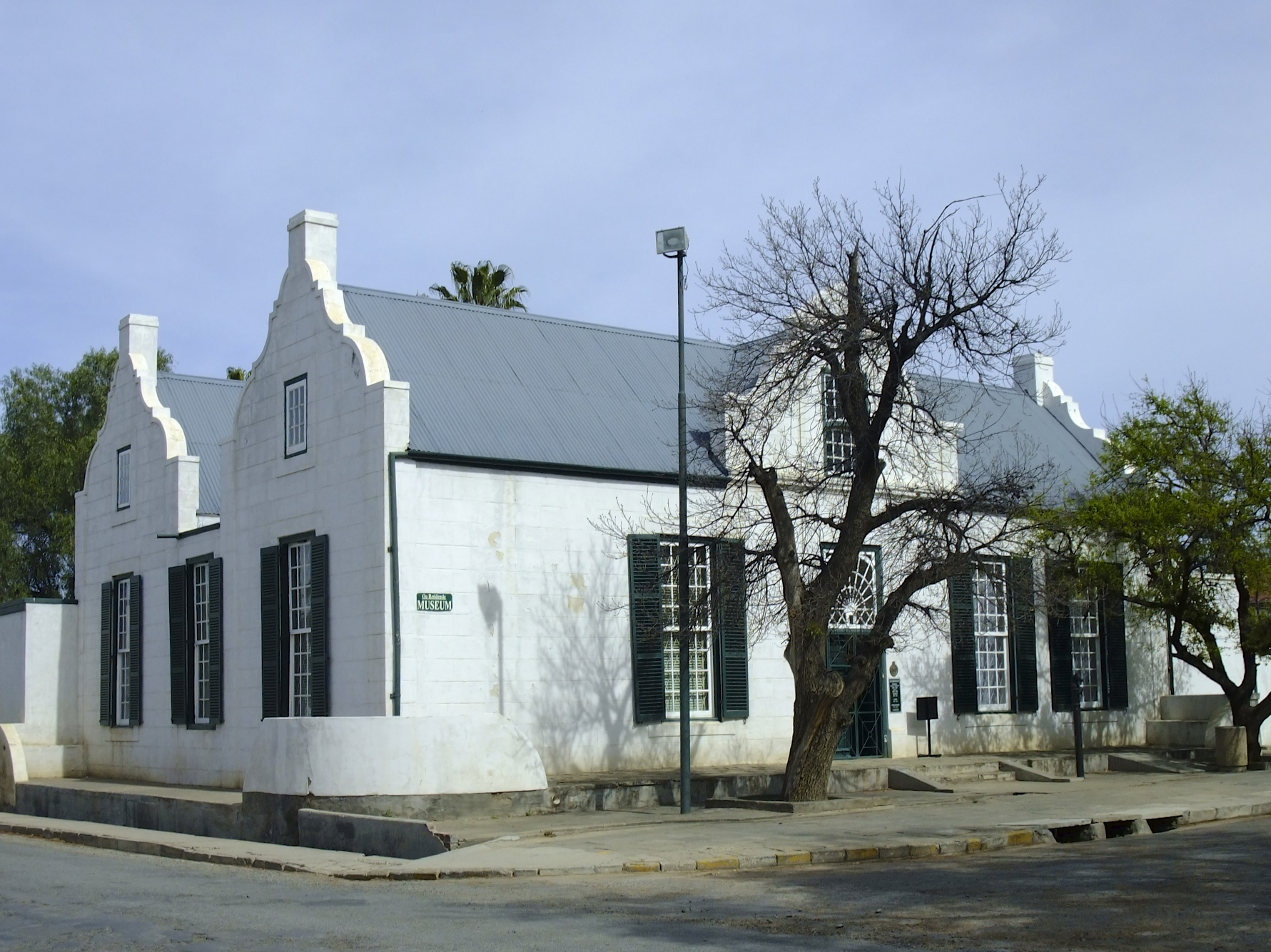 Old Residency in Graaff Reinet This media shows a South African Protected Site with SAHRA file reference 9/2/033/0006.